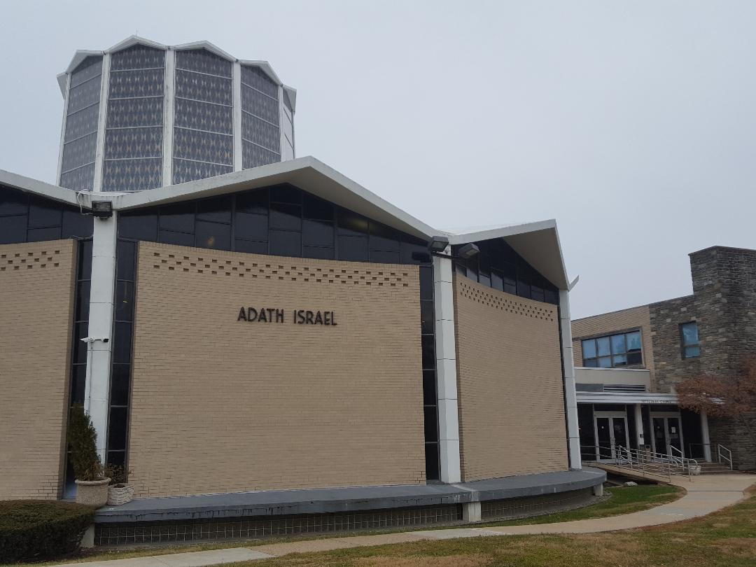 Temple Adath Israel of the Main Line exterior on December 29, 2020.